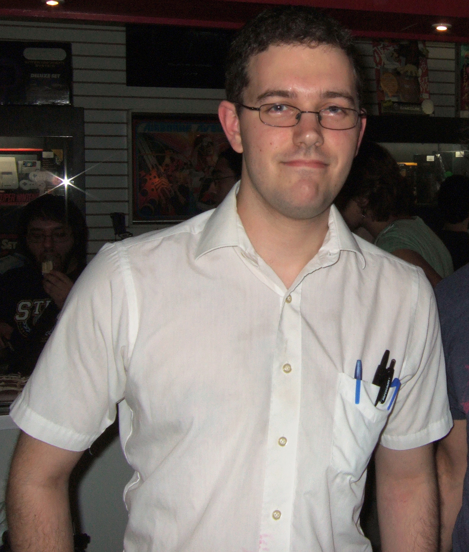 The Digital Press video game store in Clifton, NJ, June 28, 2008. pictured (left to right): James Rolfe (the Angry Video Game Nerd) and Rob (me, recovering from sunburn)